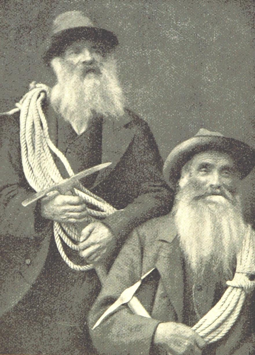 Hans and Christian Grass of Pontresina Image taken from: Title: "Die Schweiz im neunzehnten Jahrhundert. Herausgegeben von schweizerischen Schriftstellern unter Leitung von P. Seippel" Author: SEIPPEL, Paul. Shelfmark: "British Library HMNTS 9305.h.2." Volume: 03 Page: 454 Place of Publishing: Lausanne Date of Publishing: 1899 Issuance: monographic Identifier: 003330970 Explore: Find this item in the British Library catalogue, 'Explore'. Download the PDF for this book (volume: 03) Image found on book scan 454 (NB not necessarily a page number) Download the OCR-derived text for this volume: (plain text) or (json) Click here to see all the illustrations in this book and click here to browse other illustrations published in books in the same year.